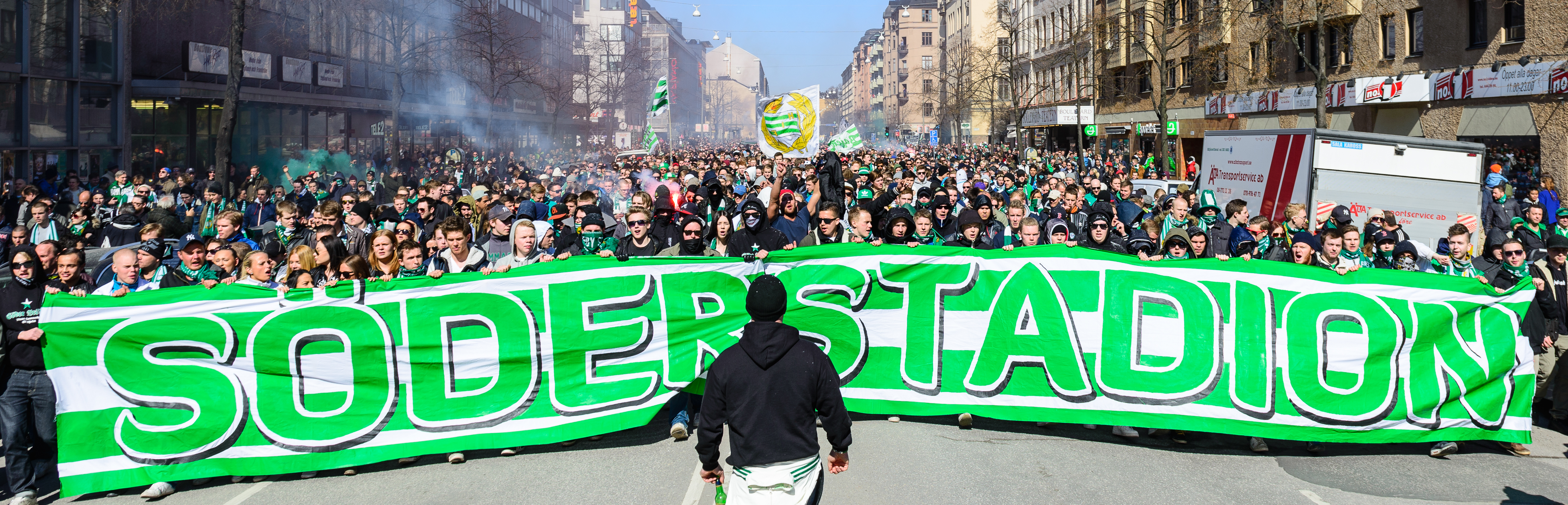 Hammarby supporters during supportermarchen, the tradionella walk from central Södermalm to the team's home stadium, Söderstadion , before the season's first home game.